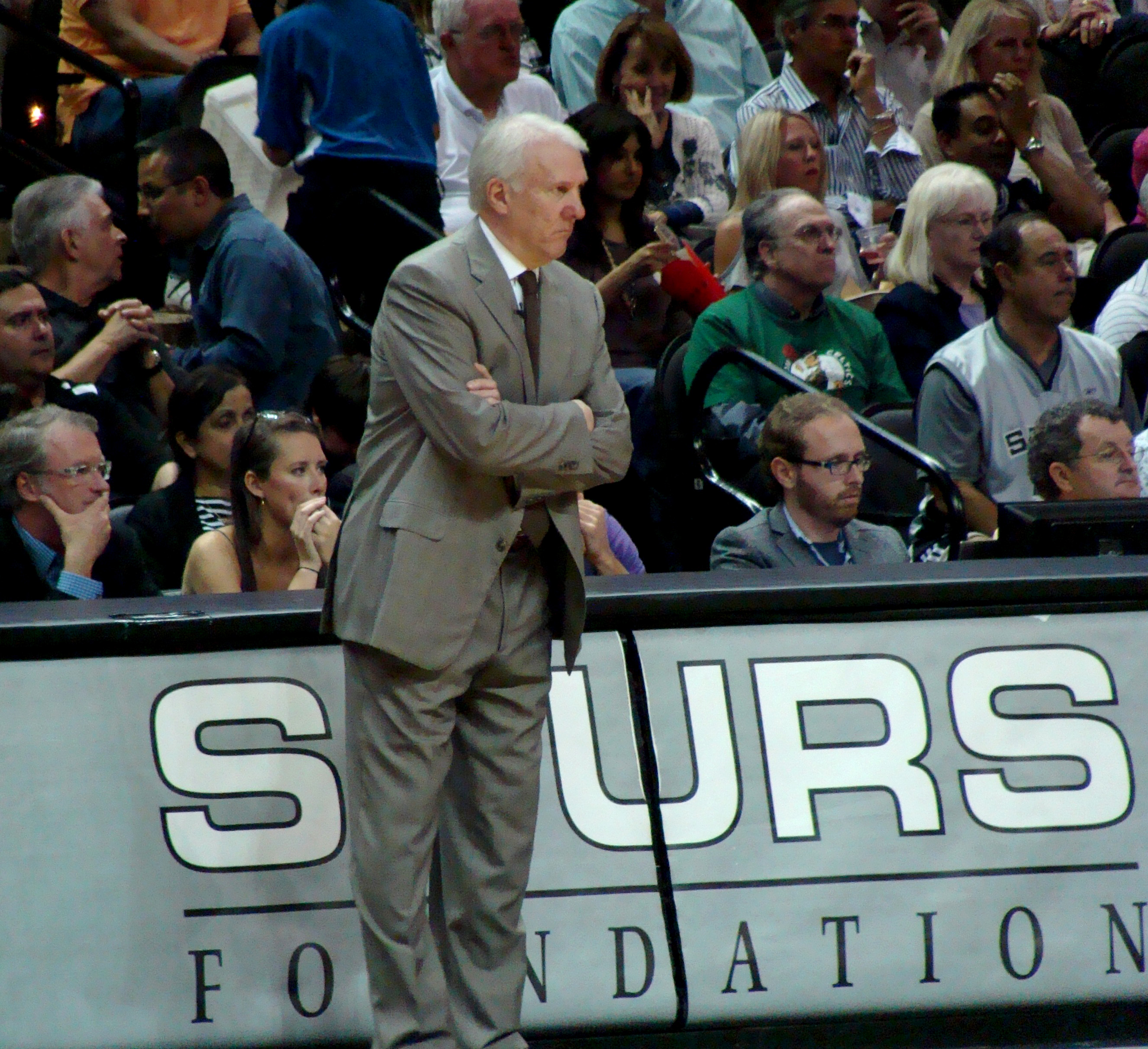 Gregg Popovich of The San Antonio Spurs, against The Boston Celtics, March 31, 2011.